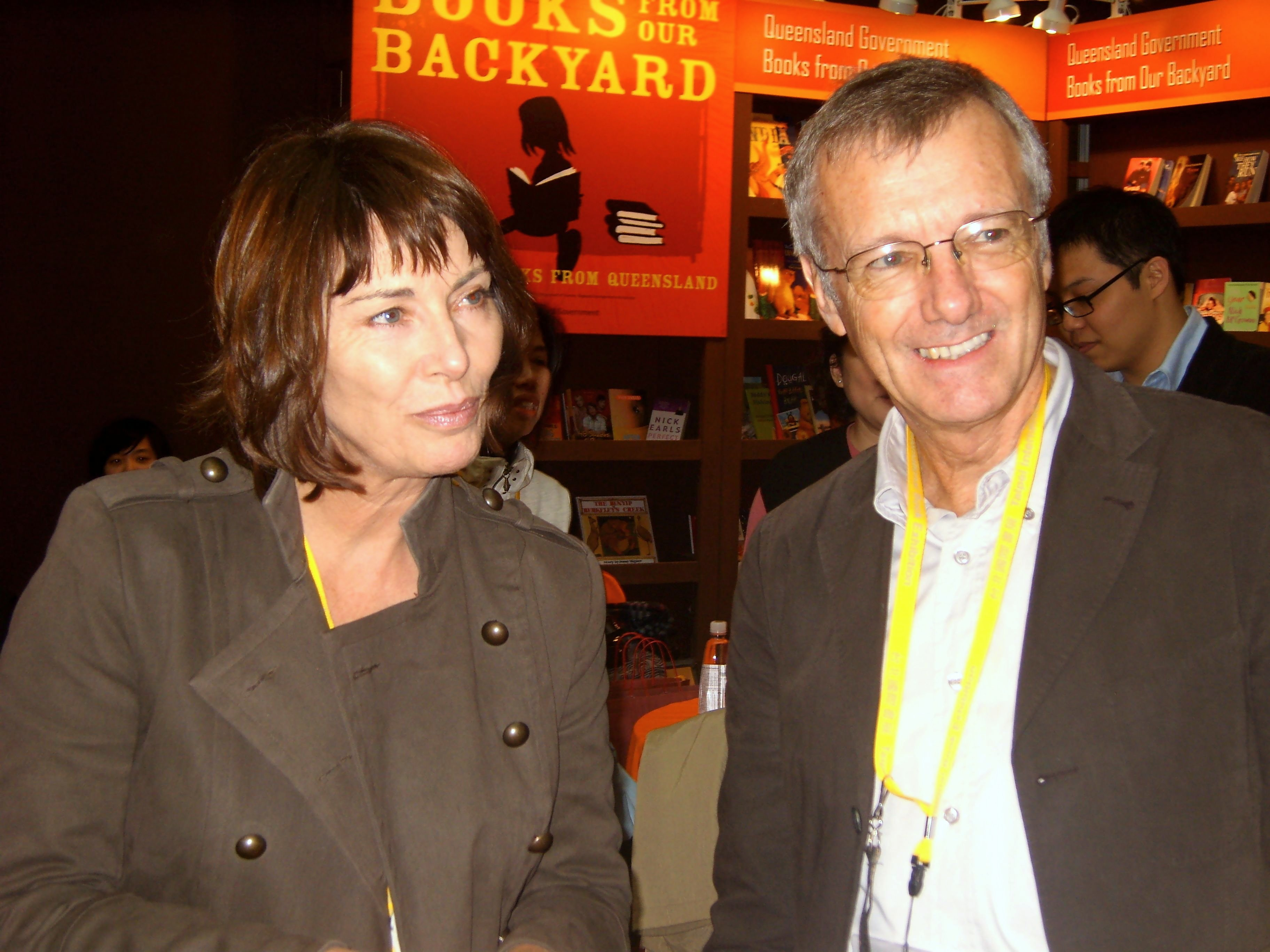 2008 Taipei International Book Exhibition - Australia Pavilion: The Wheelers (Maureen Wheeler & Tony Wheeler), Co-Founders of Lonely Planet.